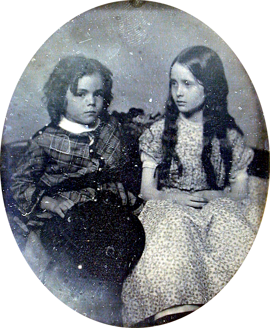 Sixth plate daguerreotype of Una and Julian Hawthorne, the children of Nathaniel Hawthorne seated together on a sofa.